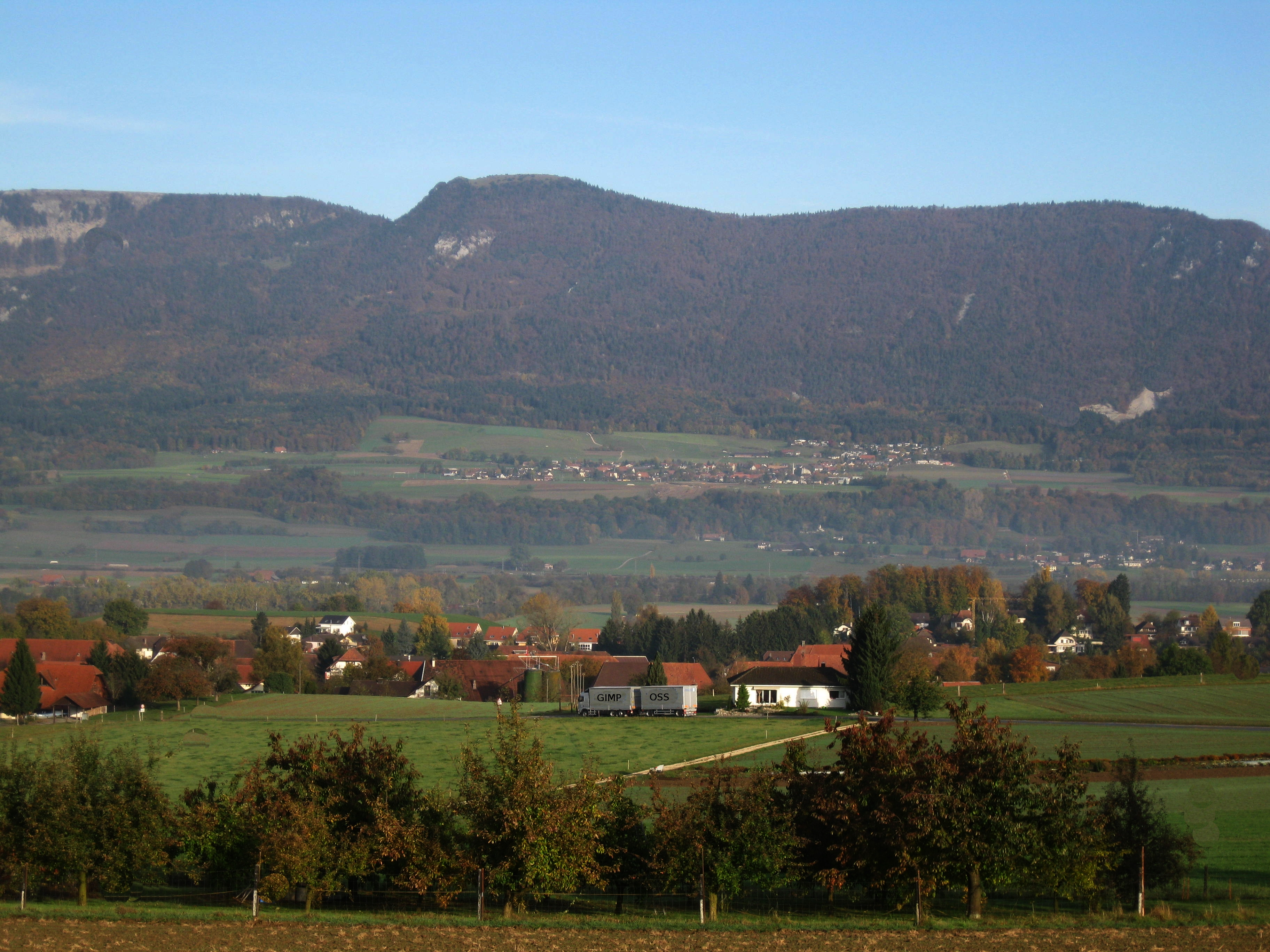 nennigkofen jura so